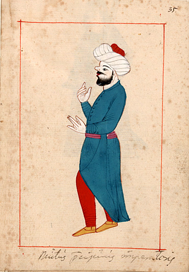 Pictures from the Ralamb Costume Book, 1657